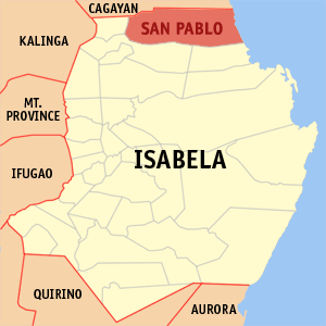 Map of Isabela showing the location of San Pablo